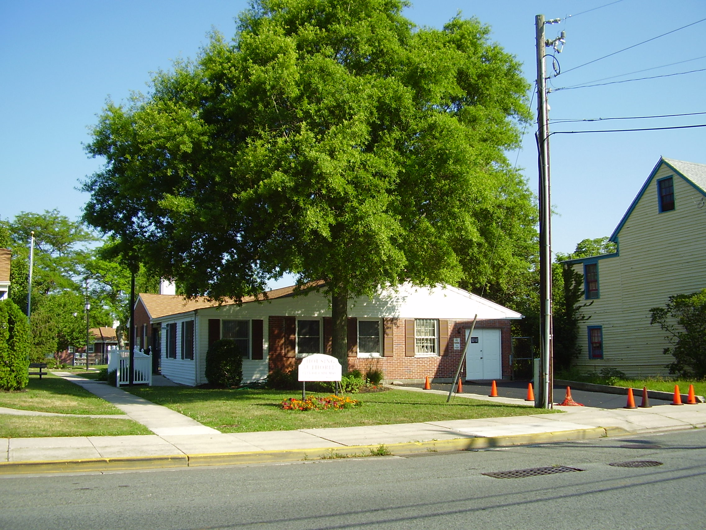 Cape May Housing Authority